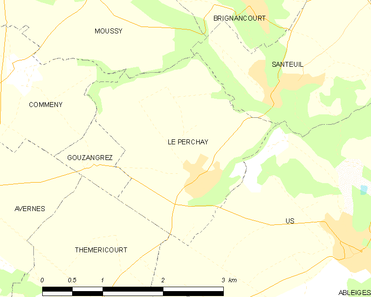 Map of French municipality Le Perchay